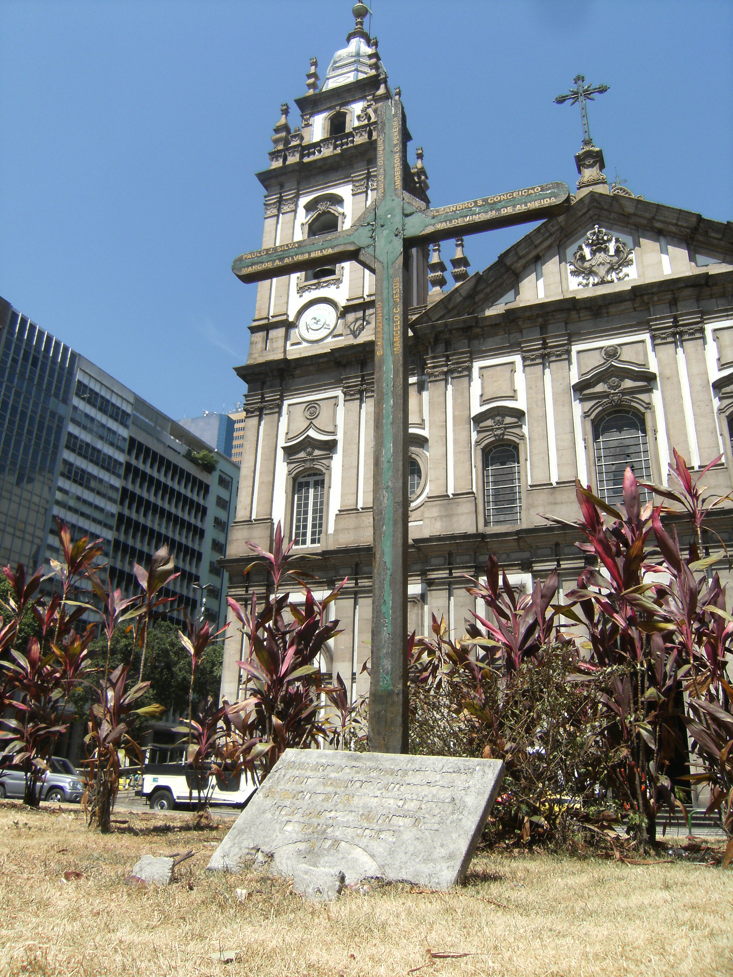 A picture from Igreja da Candelaria/Rio de Janeiro